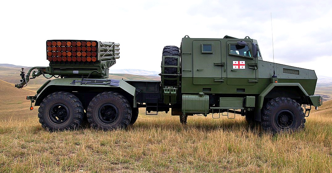 georgian made MLRS DRS-122